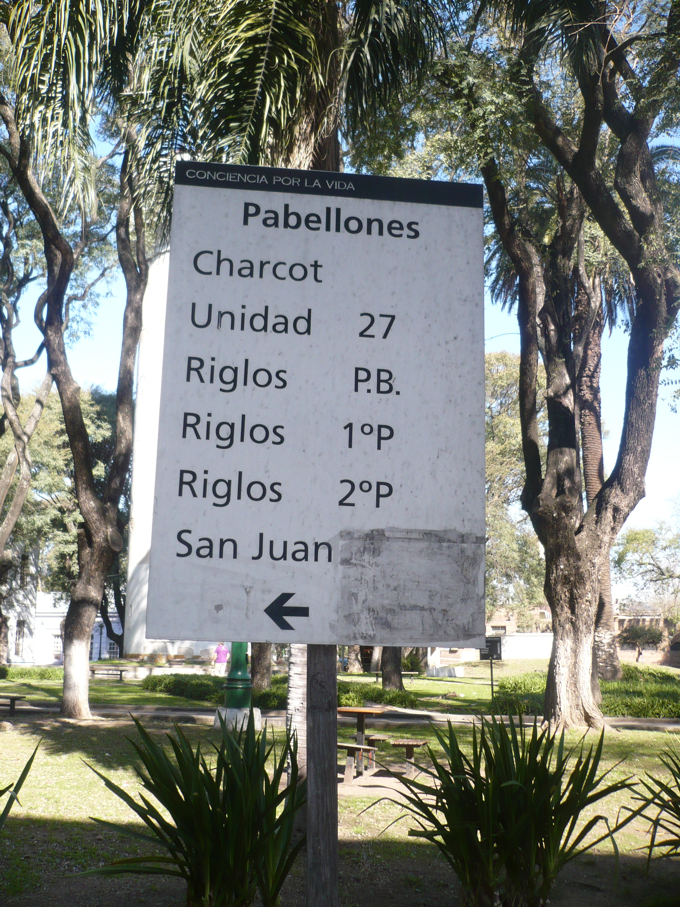 Moyano Hospital at Buenos Aires